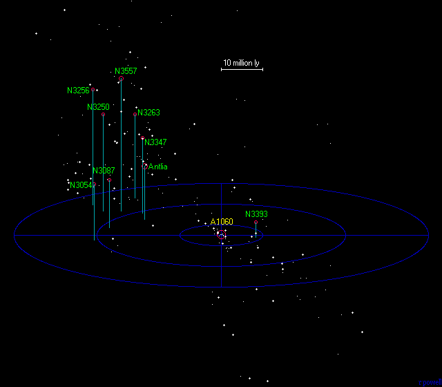 Three-dimensional map of the Hydra supercluster. Credits: Powell, Richard. Atlas of the Universe Copyrights information